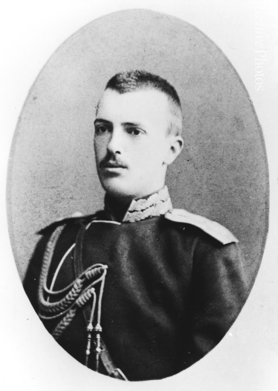 Sergei Mikhailovich Grand Duke of Russia in his youth